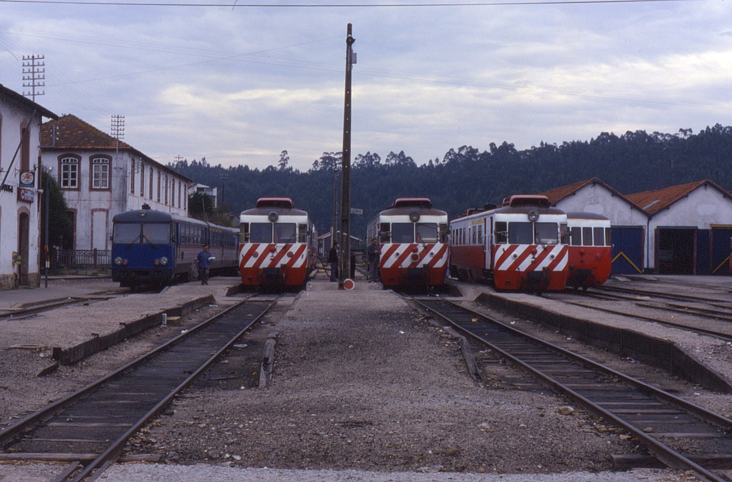 A line up of metre gauge DMUs on the Linha do Vougha system's main station, Sernada do Vouga.